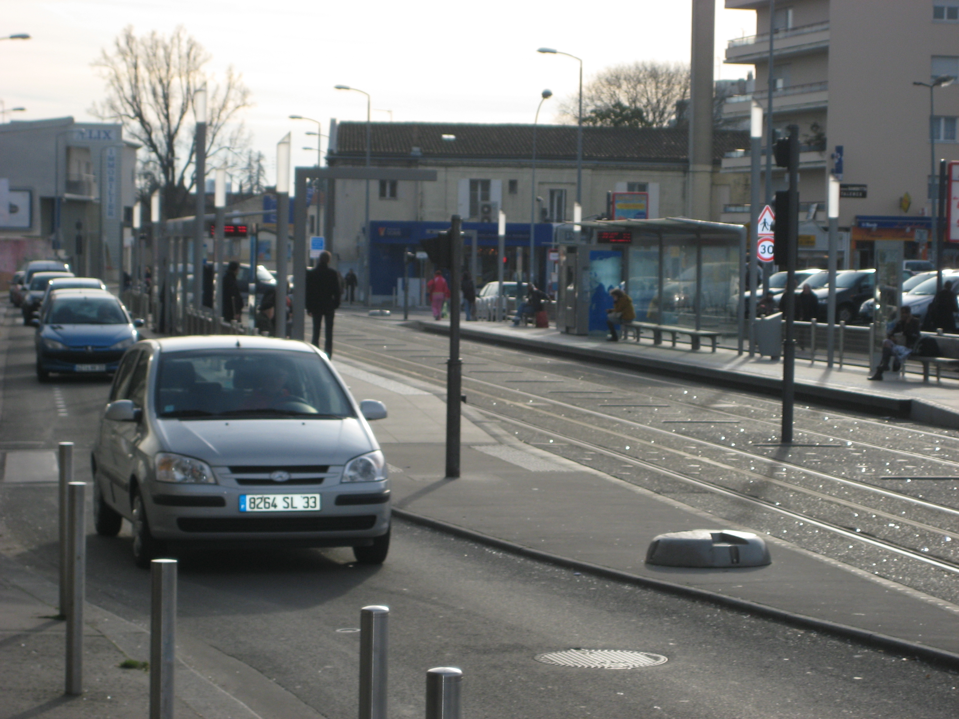 Station Roustaing on the Tramway de Bordeaux